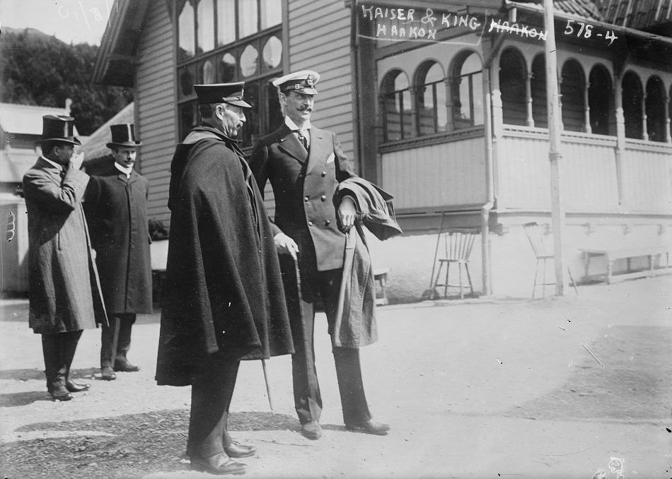 King Haakon VII of Norway and Wilhelm II of Germany